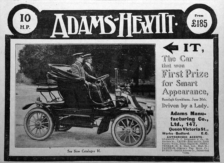 Ad for British Adams-Hewitt 10 HP single cylinder automobile (1906) at £185, mentioning a "First Prize for Smart Appearance".